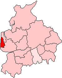 Districts in the Ceremonial County of Lancashire, England with Blackpool highlighted